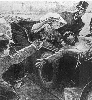 Drawn by unknown Austrian newspaper artist